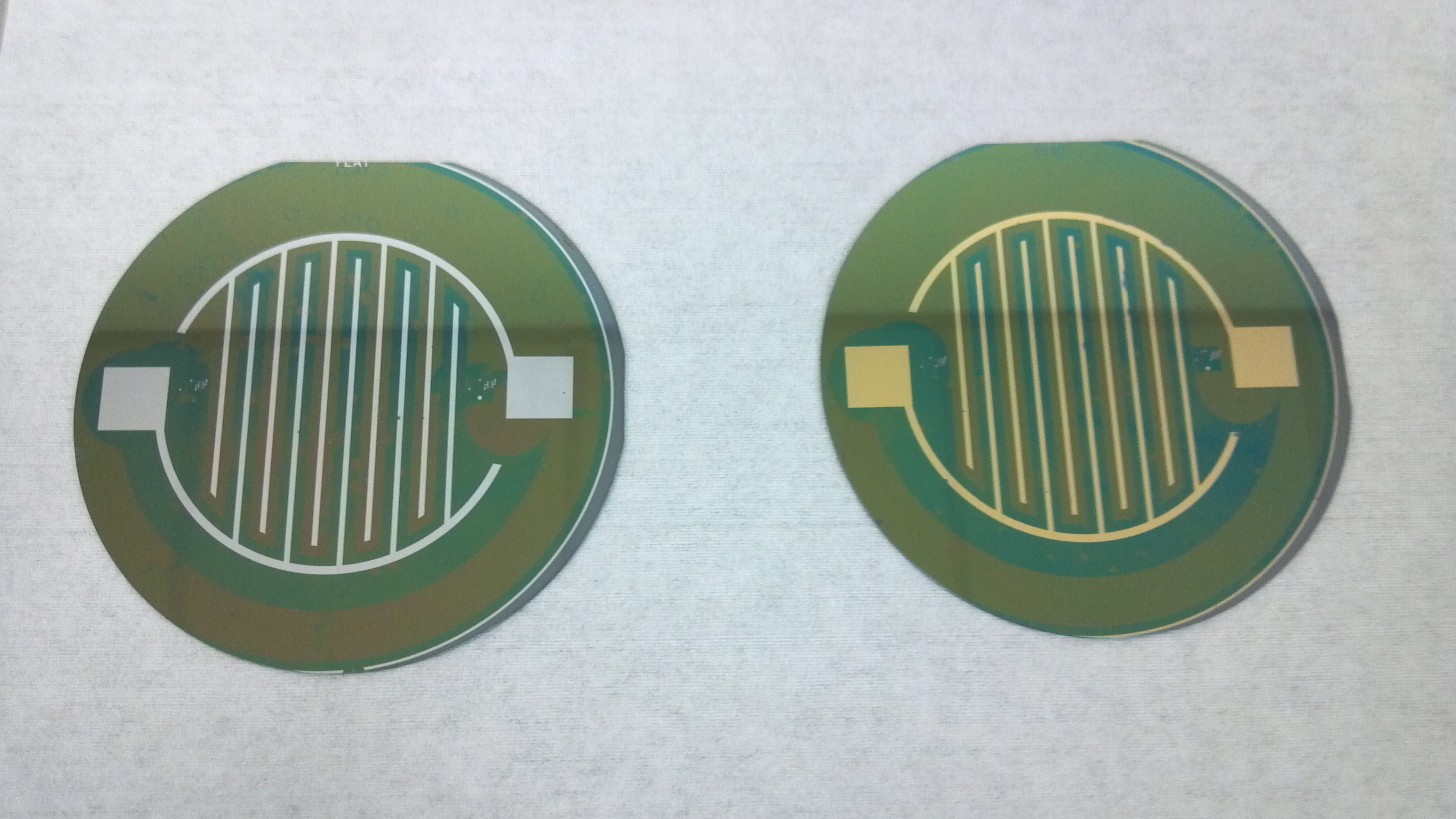 Two solar cells created at the Cal Poly Microfab Clean Room. One wafer is sintered with aluminum and the other with gold. Standard practices were followed to create these two solar cells.